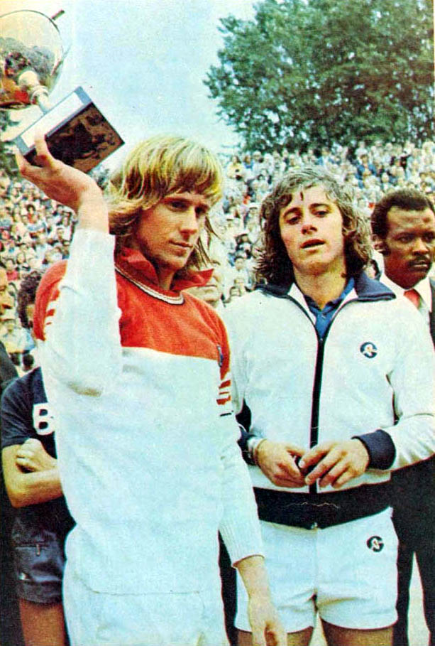 Bjorn Borg celebrating his winning over Guillermo Vilas at the final